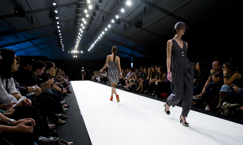 Models on the catwalk